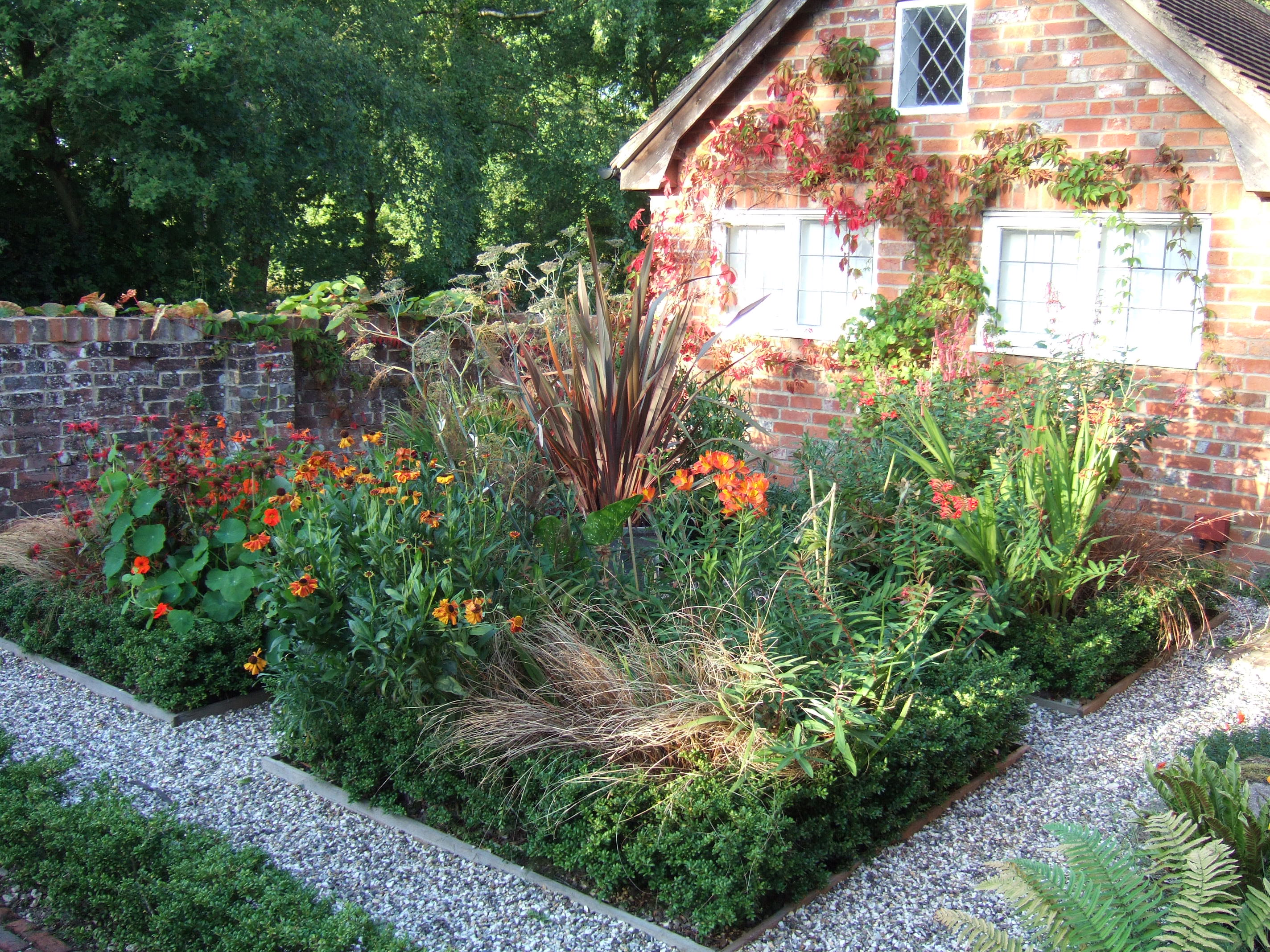 Part of a parterre in an English garden. Photo taken in September 2007, showing the development of the garden. The beds are edged with Ilex crenata (Box-leaved holly) and are planted with orange and red-flowered perennials to echo the colour of the bricks of the wall, dairy (building on right) and cottage (not shown). Garden designed and photo taken by Jasper33